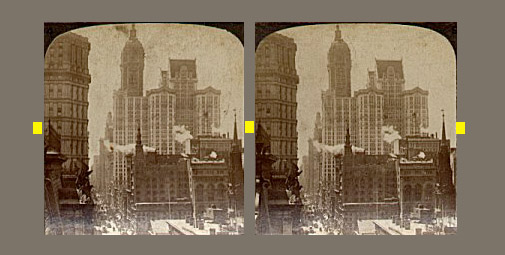 Crossed eye version of the NYPD stereo card Image:StereoCardNYCSmall.jpg (this is a derivative work) See that card image for original image copyright information. For the Stereoscopy article. To view the crossed-eye view shown here, the viewer should move slightly back from his or her normal viewing distance and place his viewpoint on a line perpendicular to the center of the image. A finger should be placed halfway between the eyes and the image, then the finger should be viewed. The three bright spots between the pictures should become four spots, and the two images become three. If the focus of the eyes is now allowed to drift to the surface of the screen without uncrossing the eyes, a three dimensional depth illusion will appear in the central image. The finger may now be removed from the view. A viewer may find that the extra side images become unimportant once in-depth view of the central image is stable. Copyright info for this derivative work